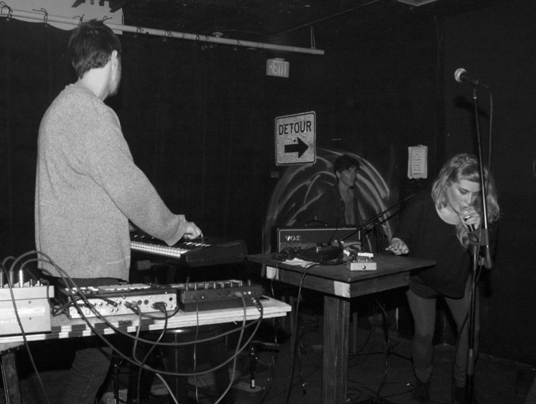 Boy Harsher performing live at Mars Pub on February 21, 2014; the photo features band members Augustus Miller and Jae Matthews.